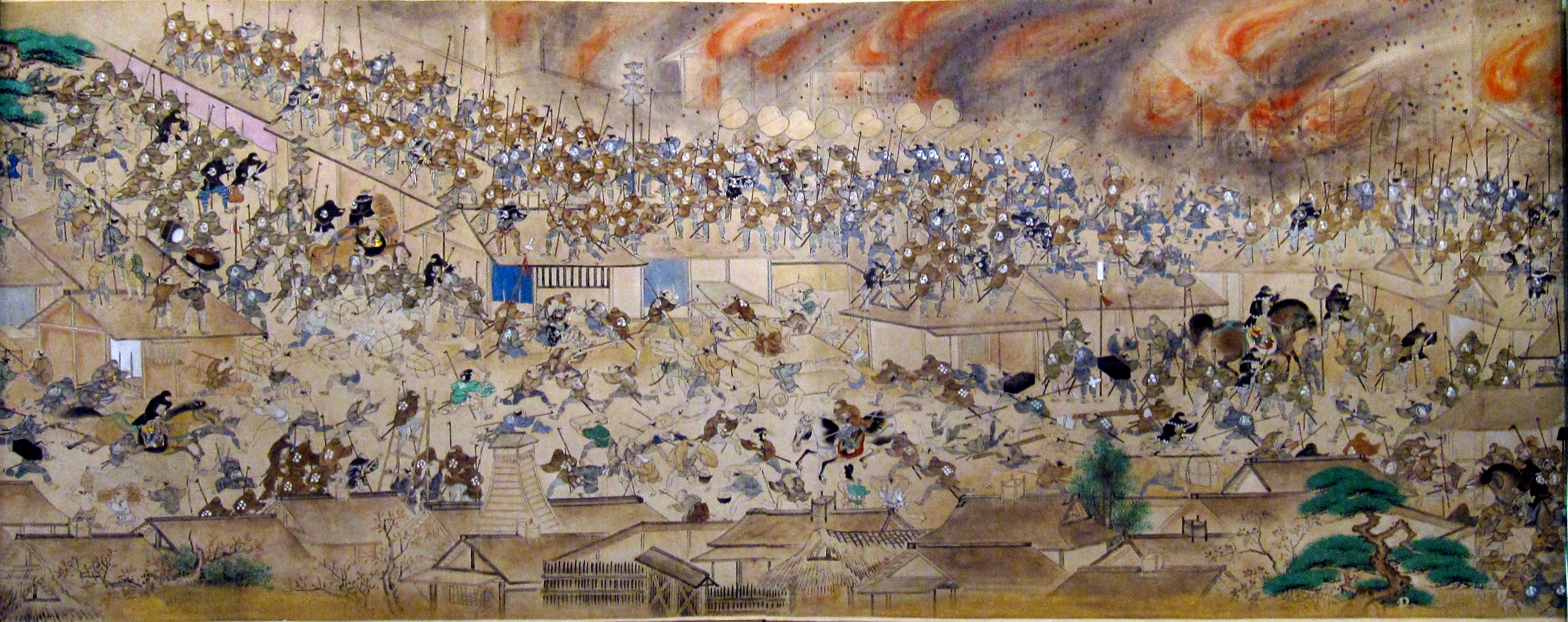 Contemporary handscroll of the Great Fire of Meireki. Owned by Edo-Tokyo Museum.